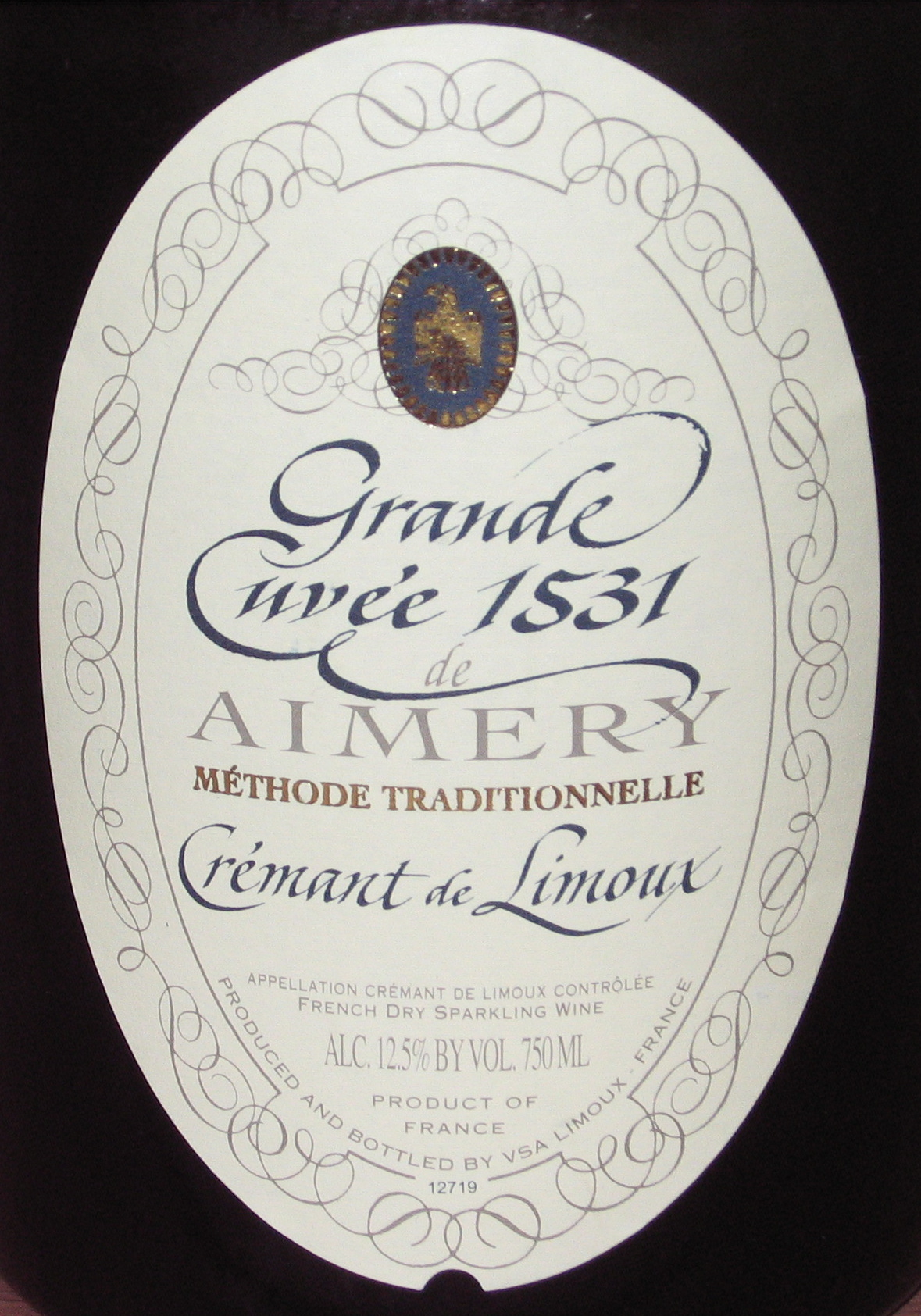 Label of Grande Cuvée 1531 de Aimery, a Crémant de Limoux, a sparkling wine from southwestern France